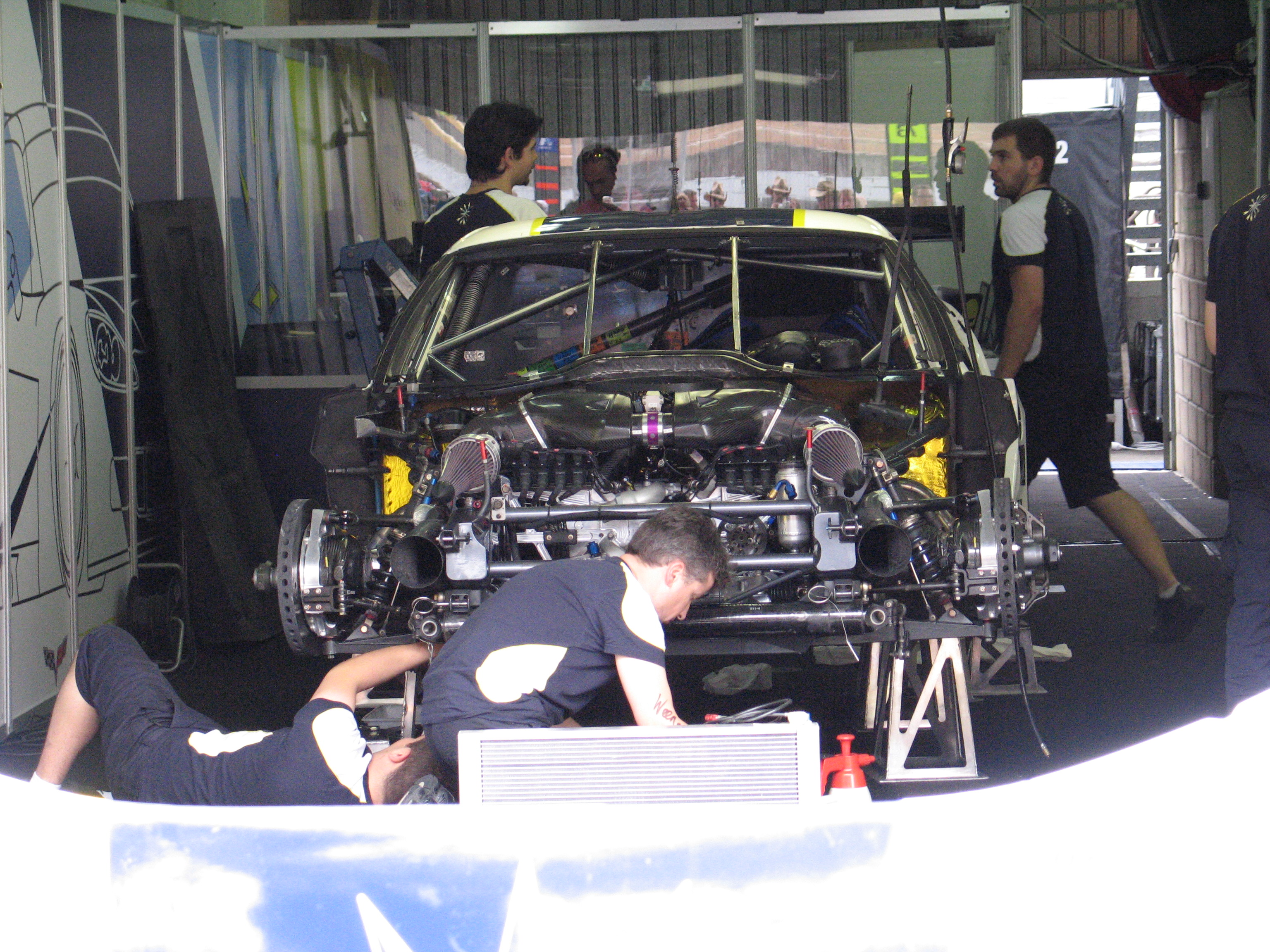 Luc Alphand Aventure's Corvette C6.R at the 2009 24 Hours of Le Mans.